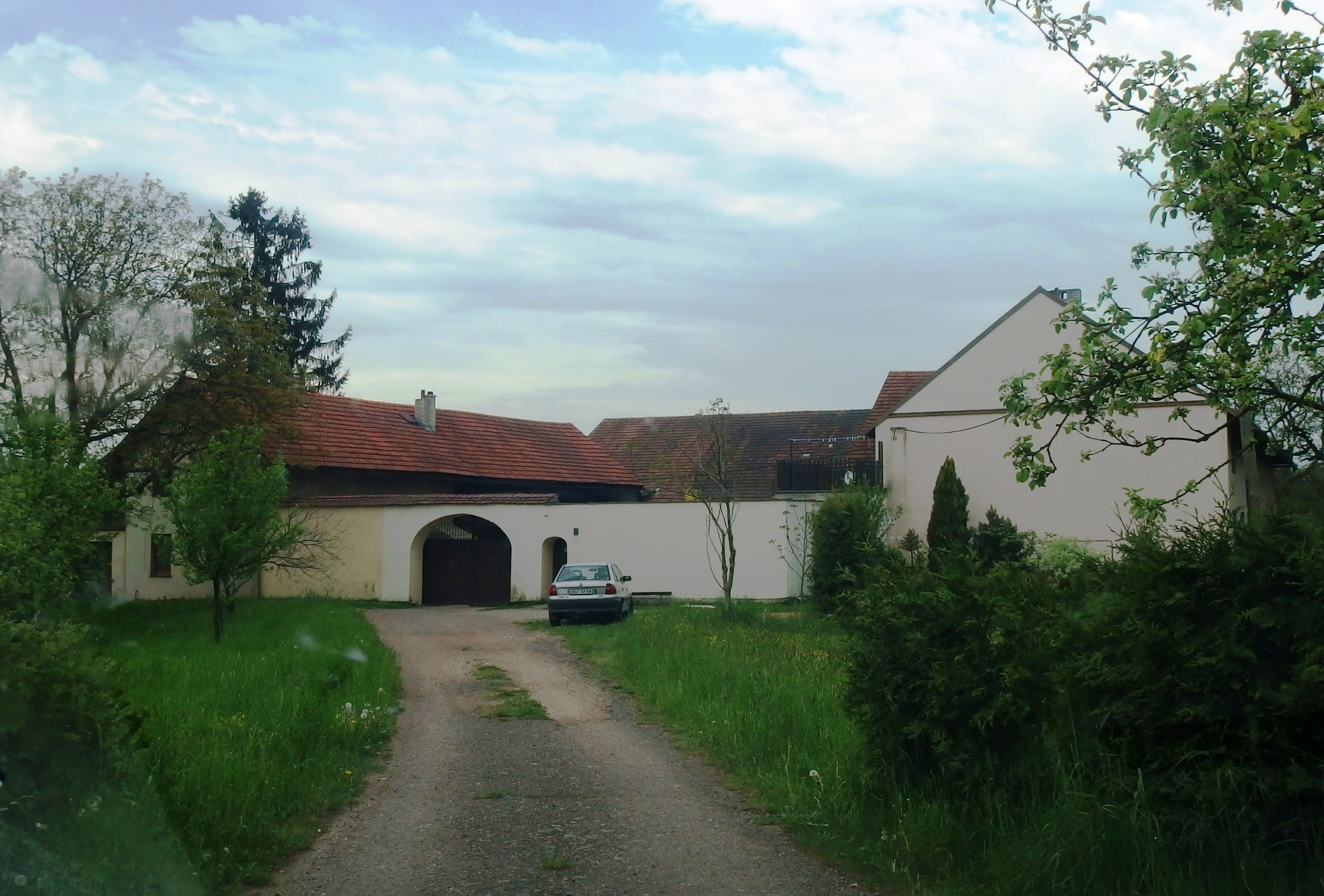 Choceň, Ústí nad Orlicí District, Czech Republic, part Březenice.